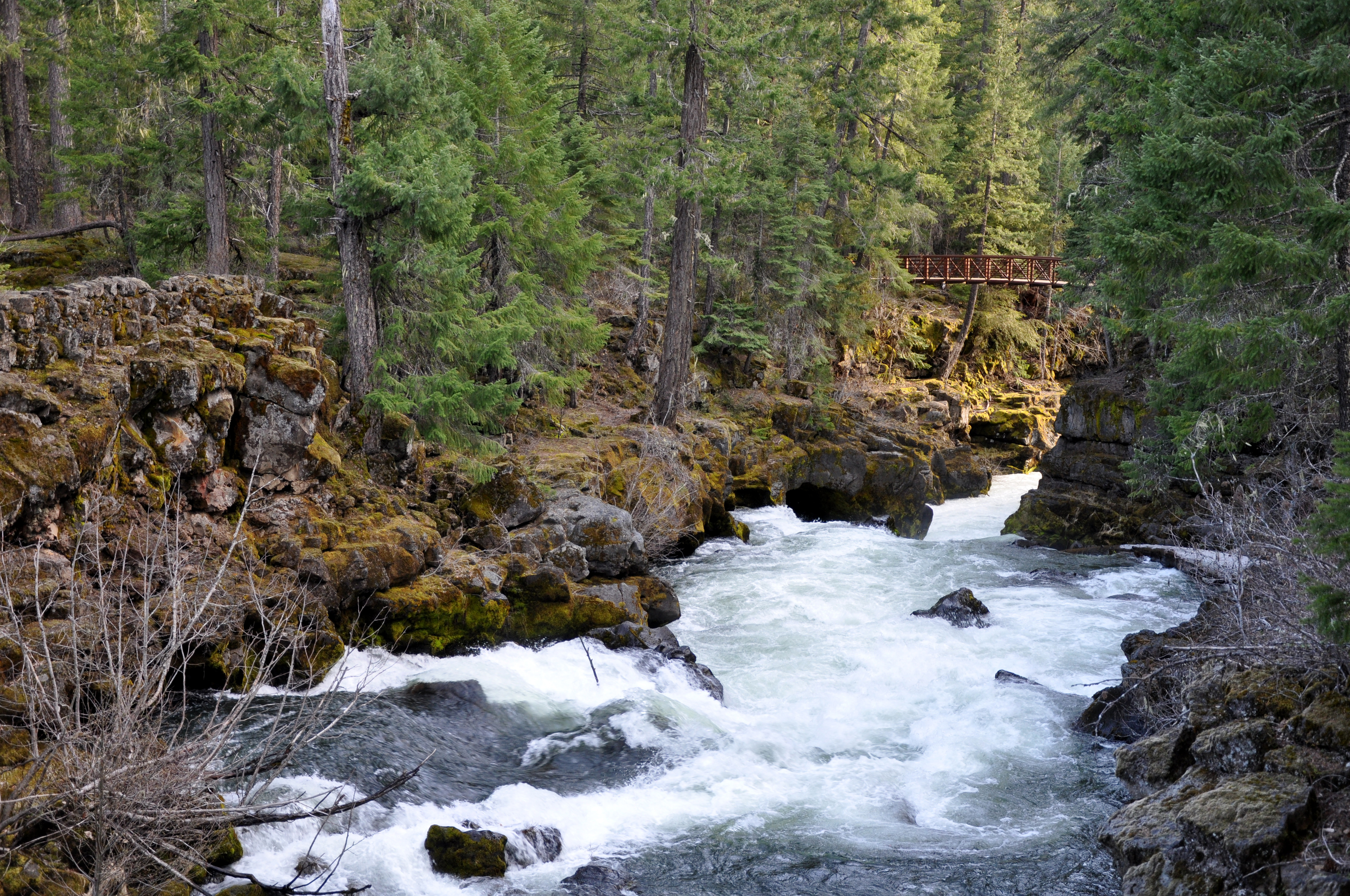 Downstream of Natural Bridge on the Rogue River in the U.S. state of Oregon. The bridge consists of hardened lava through which the entire river flows through lava tubes for about 250 feet (76 m). The artificial bridge in the background is for pedestrians visiting the natural bridge.